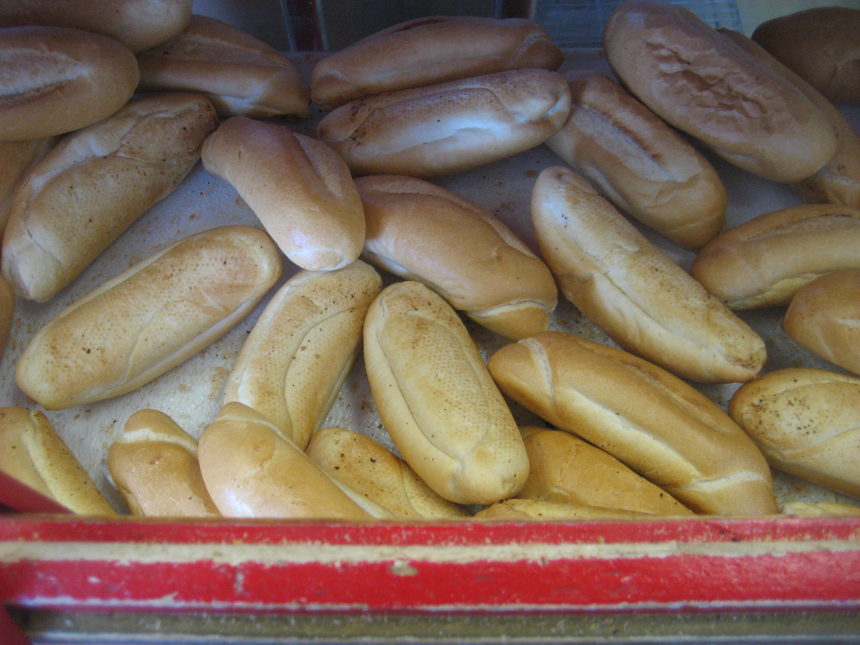 Dong Phuong Restaurant & Bakery, Eastern New Orleans, Bread loafs